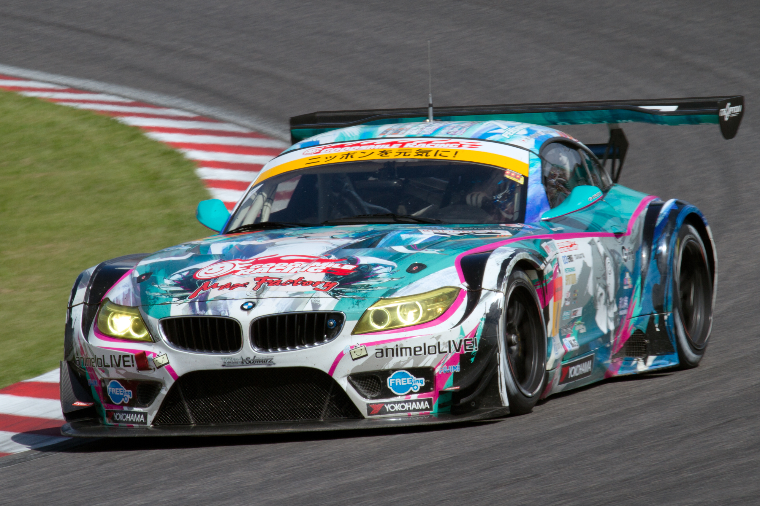 Super GT 2014 Rd.6 Suzuka 1000km: Nobuteru Taniguchi (GSR & Team Ukyo)